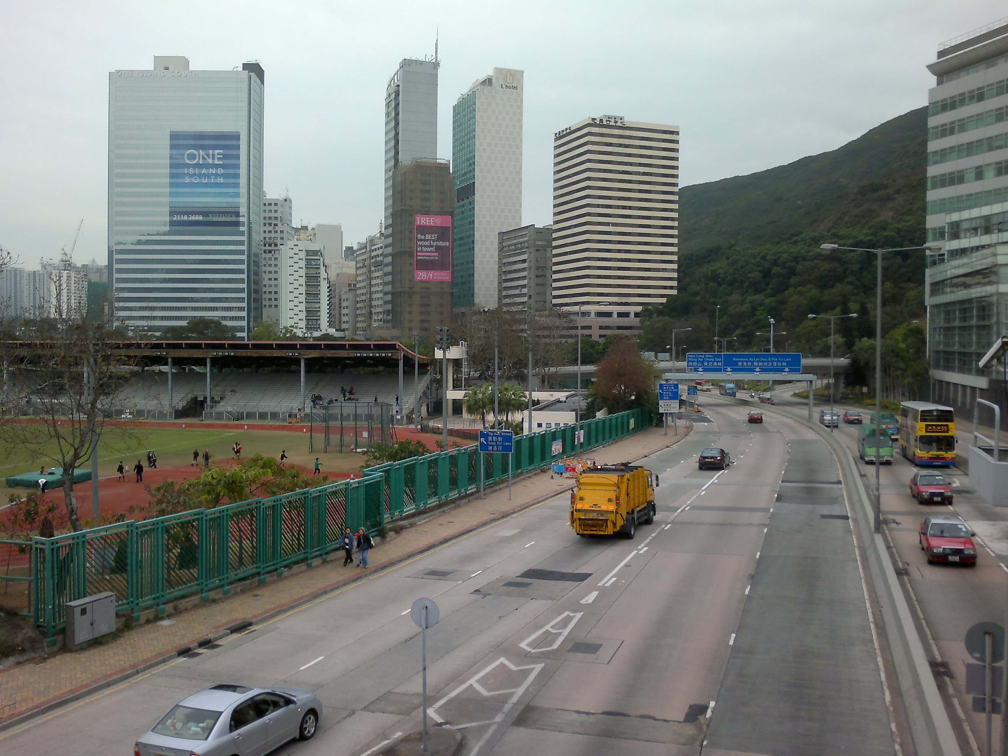 Wong Chuk Hang Road near Aberdeen Sports Ground